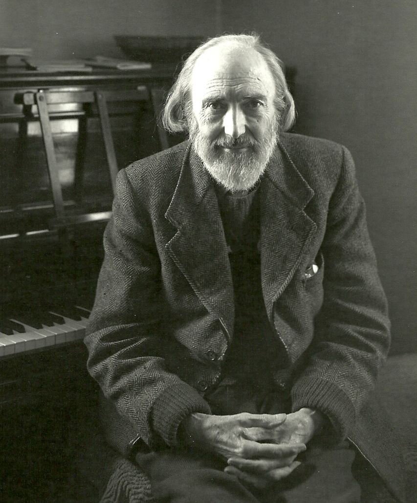 Walter Braithwaite in later life, at 51 Corser Street.